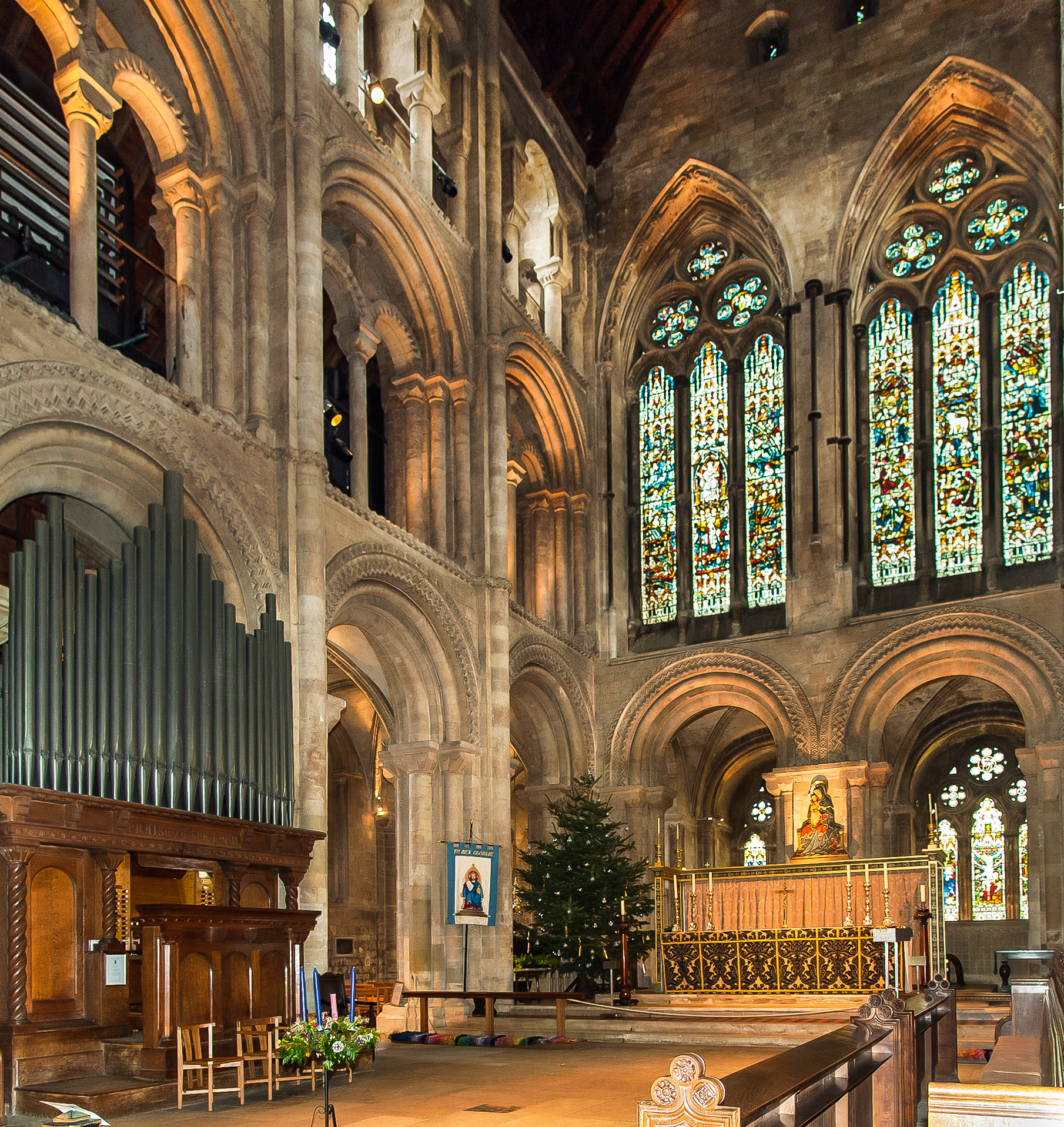 A photo of the Choir of 12th century Romsey Abbey in Hampshire, U.K.